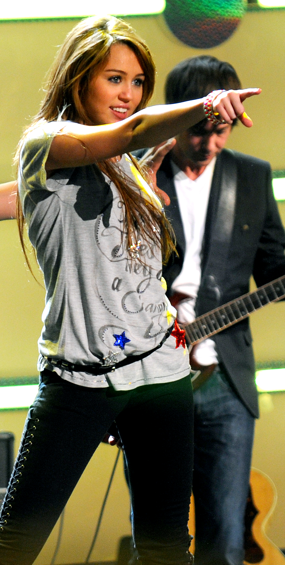 Miley Cyrus performs at the “Kids Inaugural: We Are the Future” concert at the Verizon Center in downtown Washington, D.C., Jan. 19, 2009.